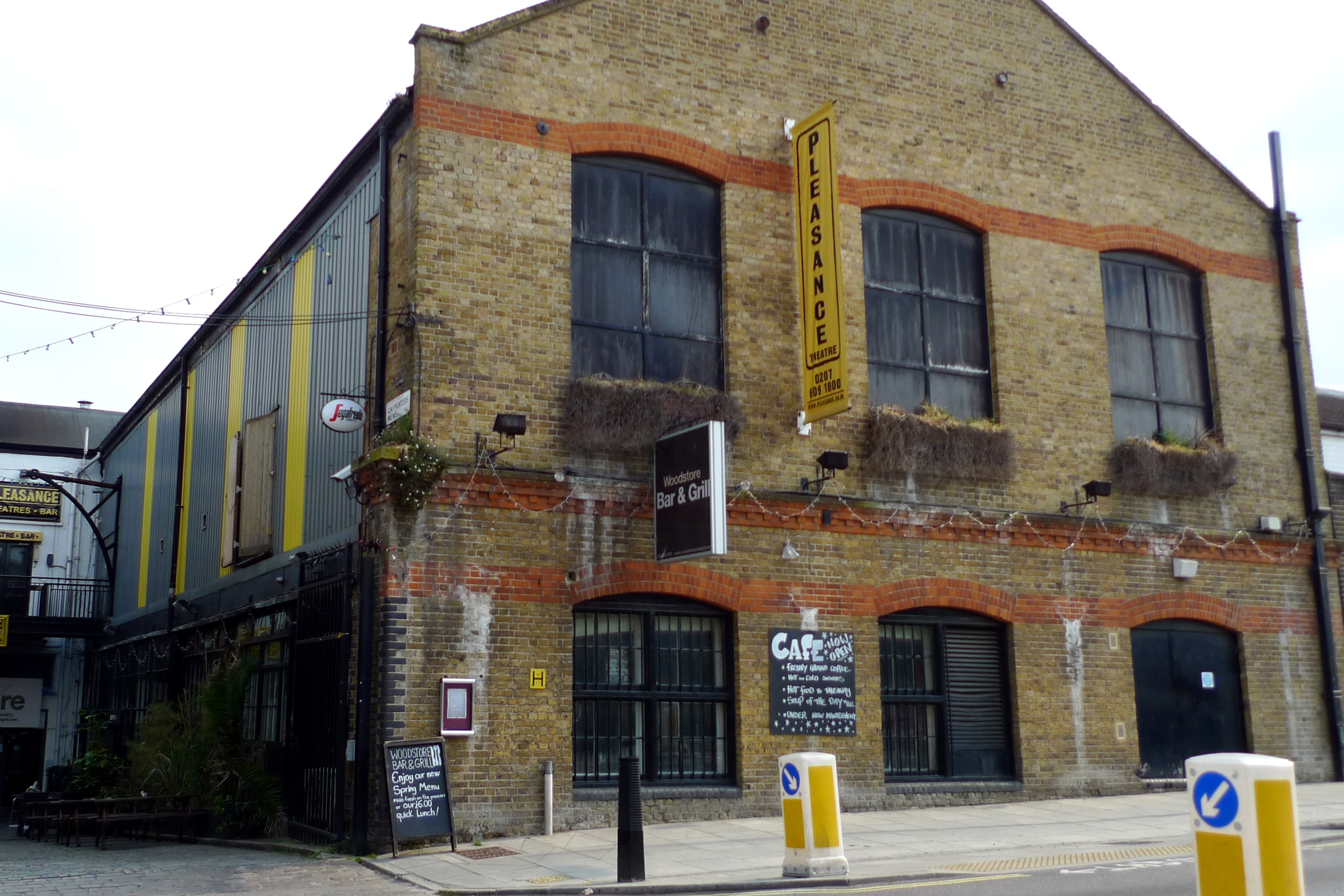 A bar attached to the Pleasance Theatre in this developing area behind Caledonian Road station . It closed in mid-2011 and has since been reopened as The George Shillibeer .